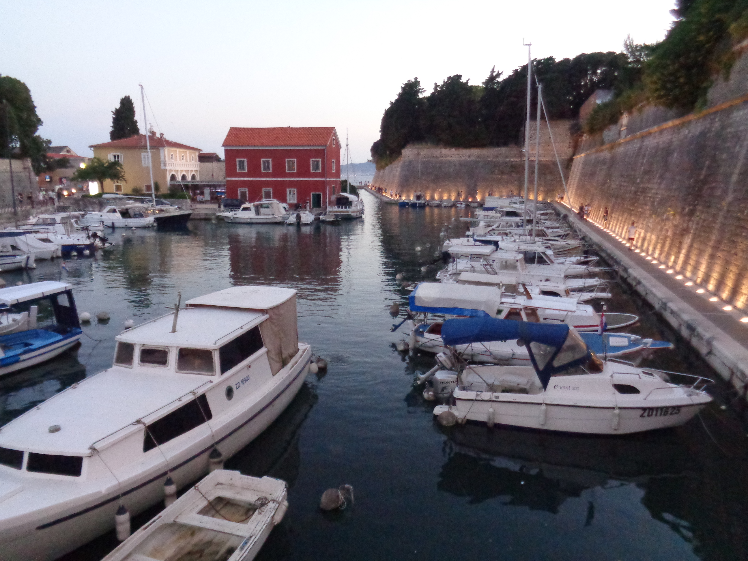 Zadar, Croatia - Foša Harbour (northeast view at twilight)